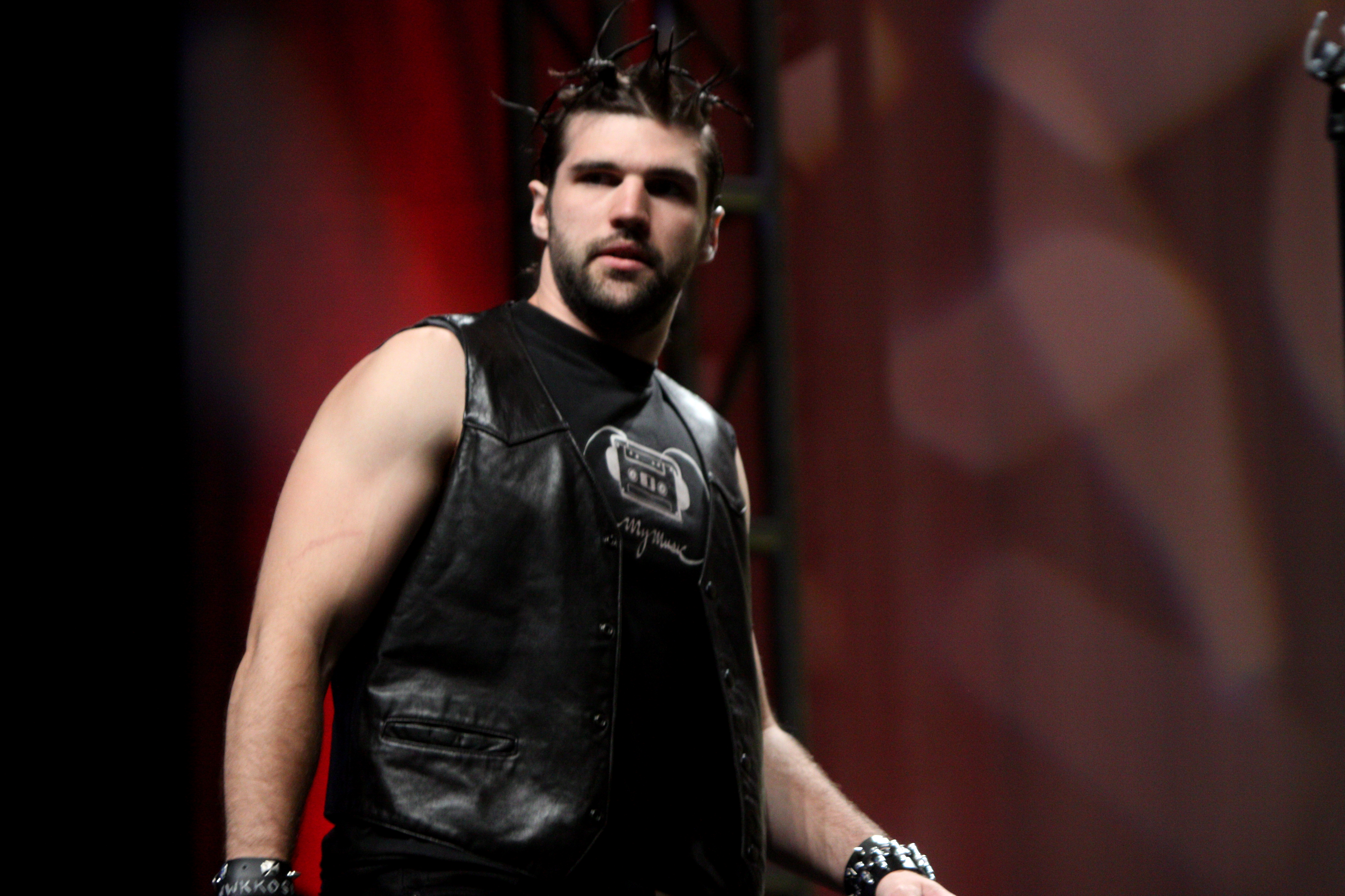 Metal of MyMusic speaking at VidCon 2012 at the Anaheim Convention Center in Anaheim, California.